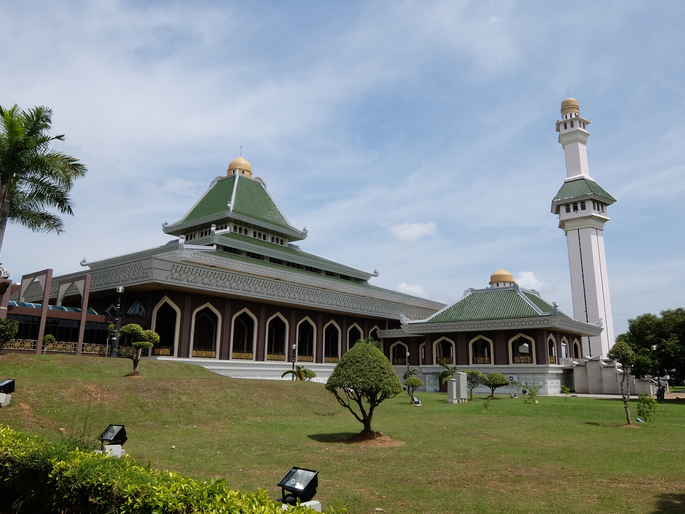 Al-Azim Mosque, Melaka City, Central Melaka, Melaka, Malaysia